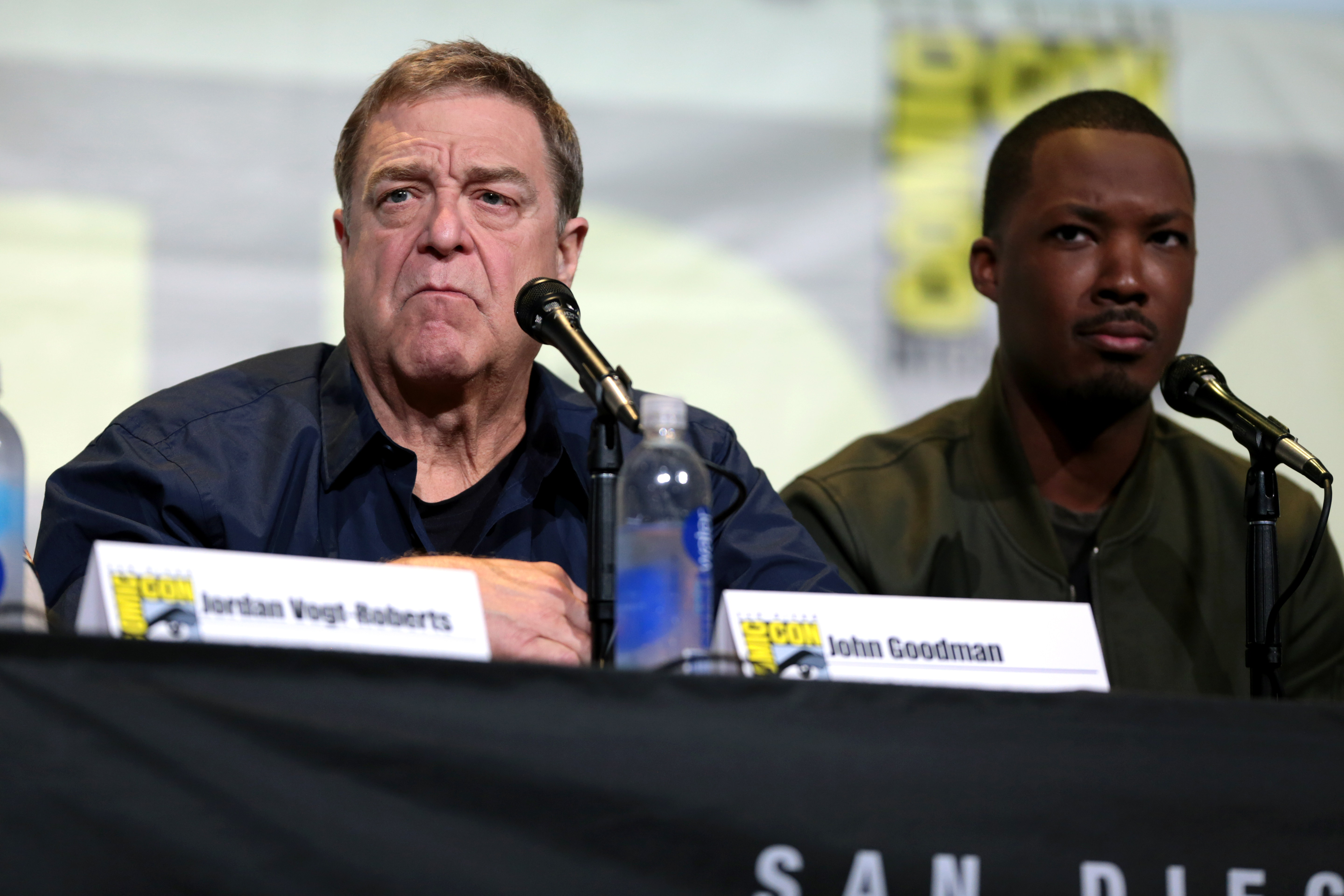 John Goodman and Corey Hawkins speaking at the 2016 San Diego Comic Con International, for "Kong: Skull Island", at the San Diego Convention Center in San Diego, California.